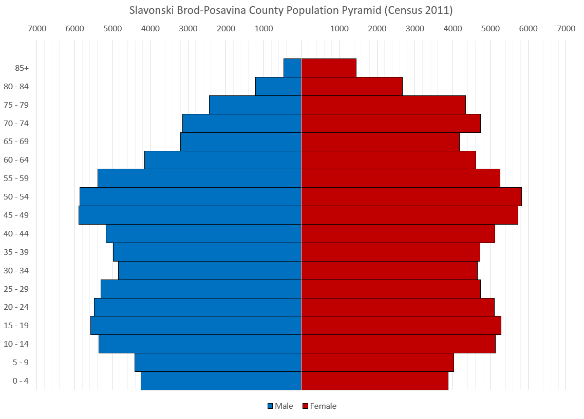 Population pyramid of Slavonski Brod-Posavina County. Version in English. Data from 2011 Census; available at